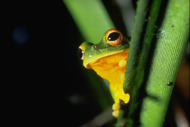 Litoria xanthomera